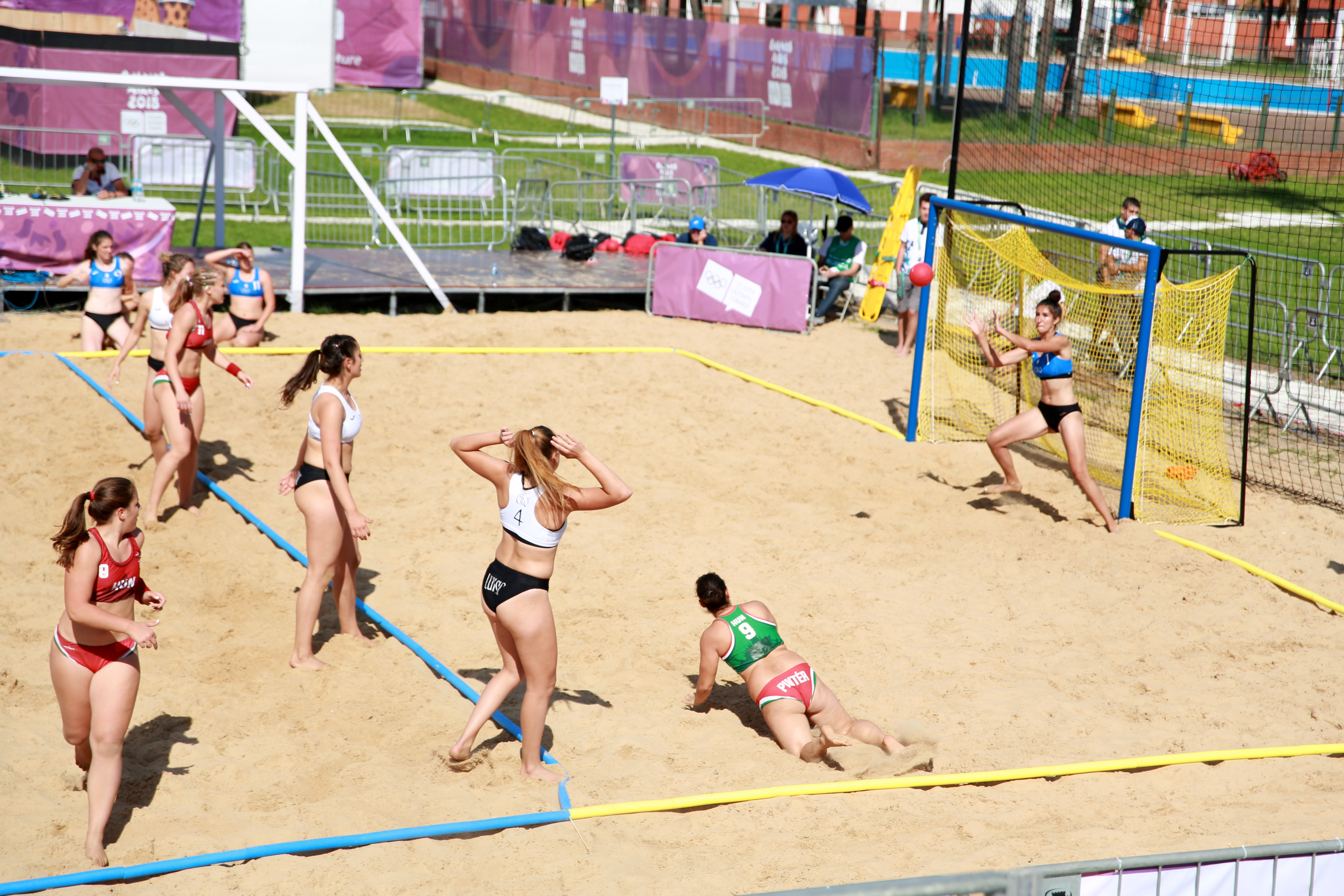 Beach handball at the 2018 Summer Youth Olympics at 9 October 2018 – Girls Preliminary Round Group A – Croatia-Hungary 0:2